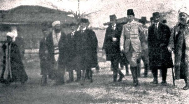 Photo of Congress members in January 28 1920 after the meeting. Congress of Lushnje is one of the milestones in state-building history of Albania. Other information Photo of Congress of Lushnje which established the new Albanian government in 1920.